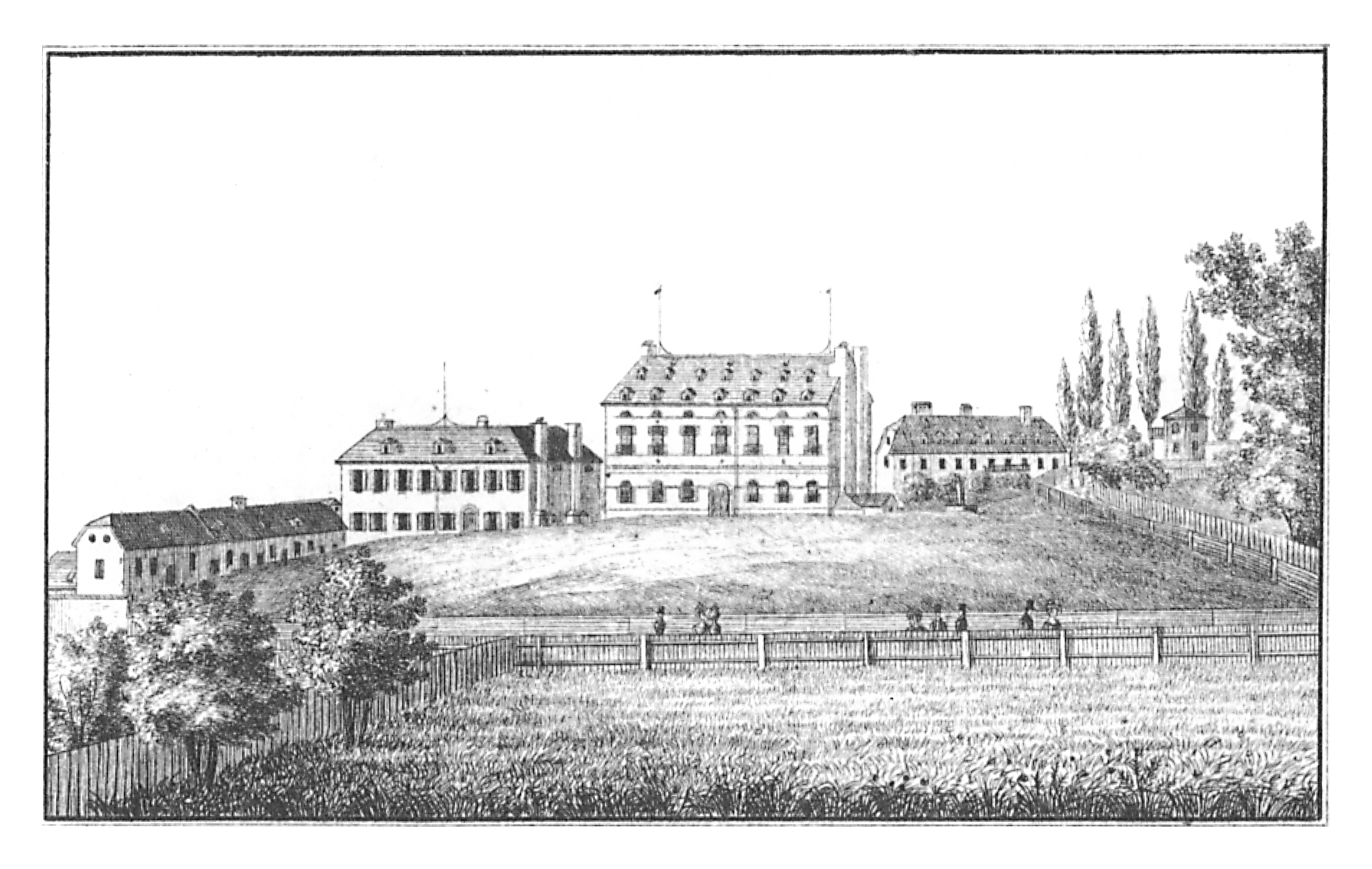 J. F. Kaiser - lithographirte Ansichten der Steyermärkischen Städte, Märkte und Schlösser, Graz 1824-1833 Joseph Franz Kaiser (1786–1859) Alternative names J. F. KaiserDescriptionAustrian printer and editorDate of birth/death 11 March 1786 19 September 1859Location of birth/death Graz (Styria) GrazAuthority control : Q1499963 VIAF: 30629353 ISNI: 0000 0000 3083 0153 LCCN: n87141671 GND: 129880159 NLP: A24960305 WorldCat creator QS:P170,Q1499963 . Scanprojekt Community Projektbudget 2012 This scan or this PDF-file was created within the GLAM-project Bookscanning, supported by Wikimedia Germany and Wikimedia Austria as a part of the community-project to capture books, documents and pictures which are not eligible to copyright or for which the copyright has expired. This document describes or depicts an object which is located in Austria today. Send requests for uncompressed scans to Hubertl. This work is in the public domain in its country of origin and other countries and areas where the copyright term is the author's life plus 100 years or less. You must also include a United States public domain tag to indicate why this work is in the public domain in the United States. This file has been identified as being free of known restrictions under copyright law, including all related and neighboring rights.